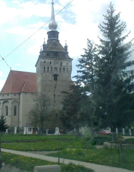 Fortified Evangelical Church in the village Saschiz, Mures County